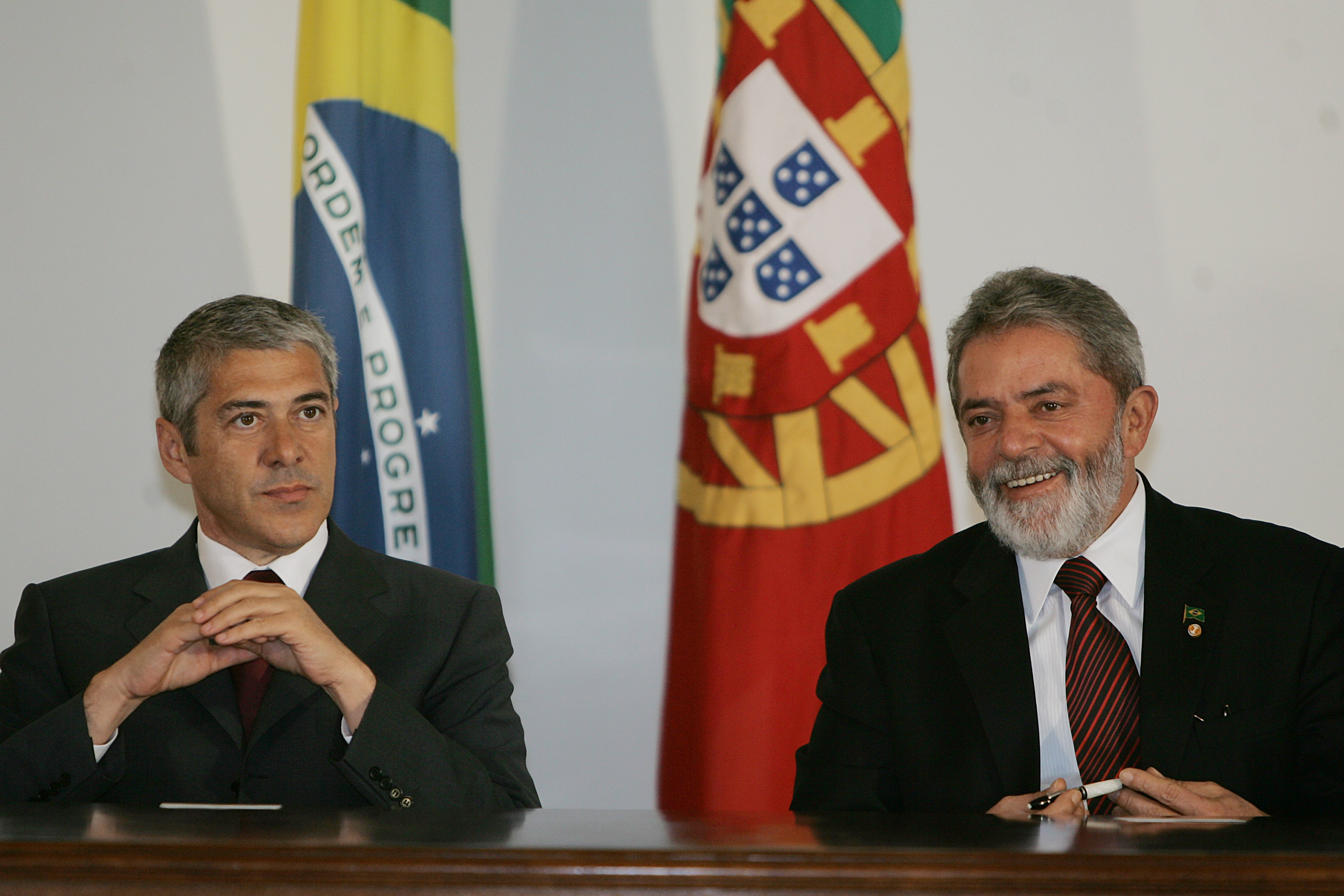 José Sócrates, prime minister of Portugal, and Lula da Silva, president of Brasil, in Brasília